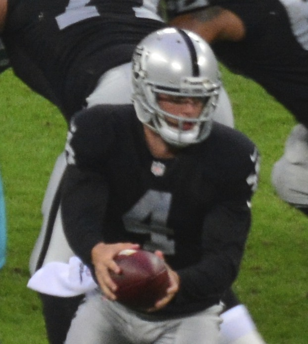 Oakland Raiders quarterback, Derek Carr, playing against the Miami Dolphins on September 28, 2014.